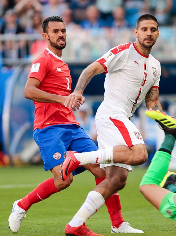 Aleksandar Mitrović, Giancarlo González